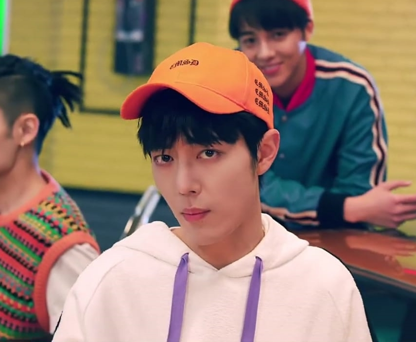 Xiao Zhan in the music video of "Big Show" from XNINE